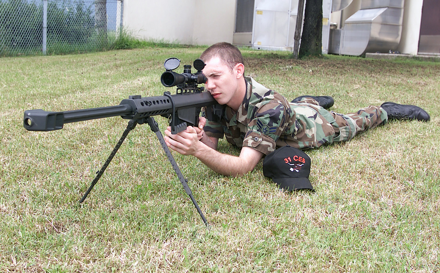 US Air Force (USAF) Airman First Class (A1C) Aaron Causey, Explosive Ordnance Disposal (EOD) Technician, 31st Civil Engineering Squadron (CES), demonstrates how to fire the Barrett 0.50 caliber Light Fifty Model 82A1 rifle. Location: AVIANO AIR BASE, PORDENONE ITALY (ITA)